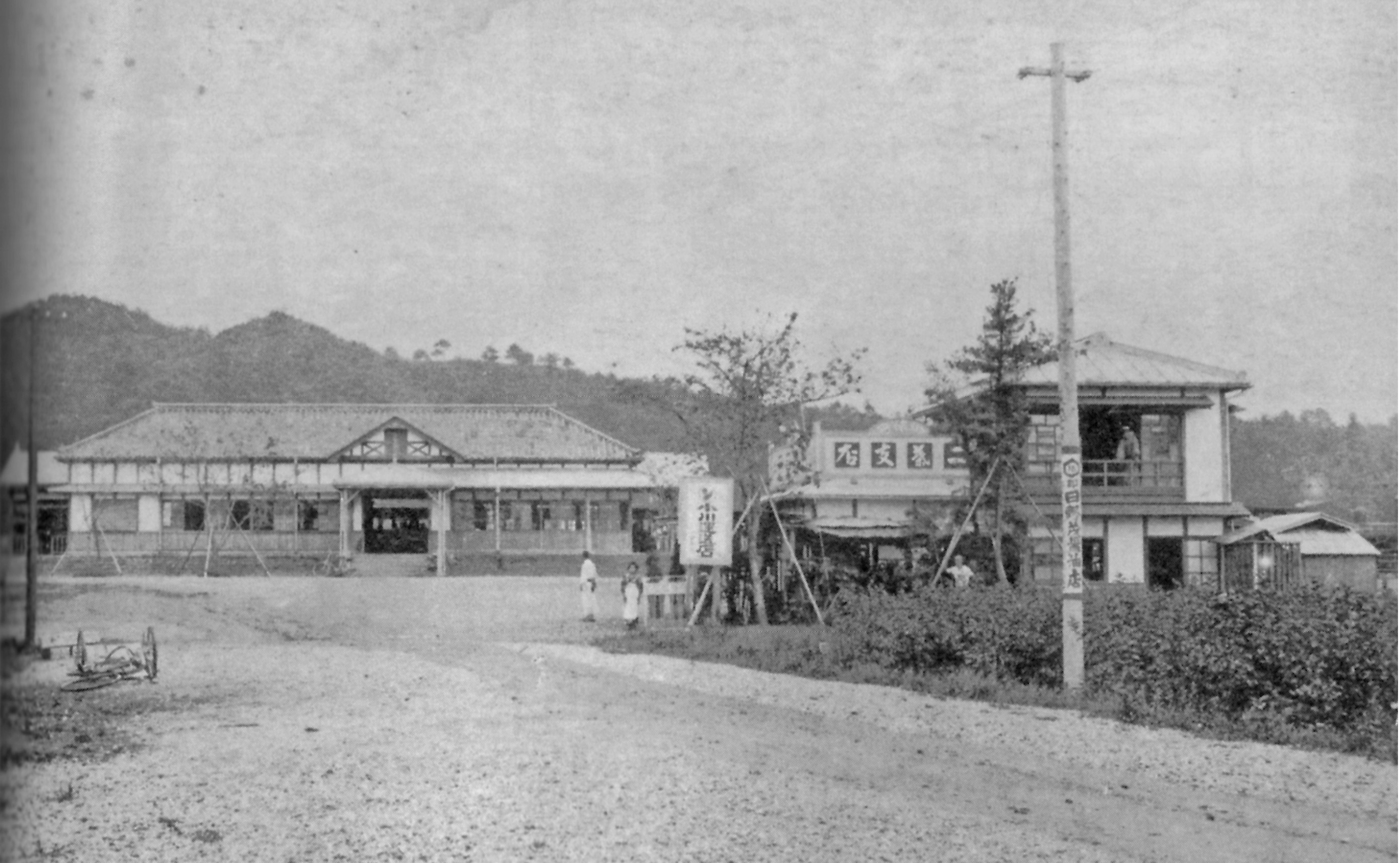 Ogawamachi Station on the Tobu Tojo Line, circa 1923, shortly after opening